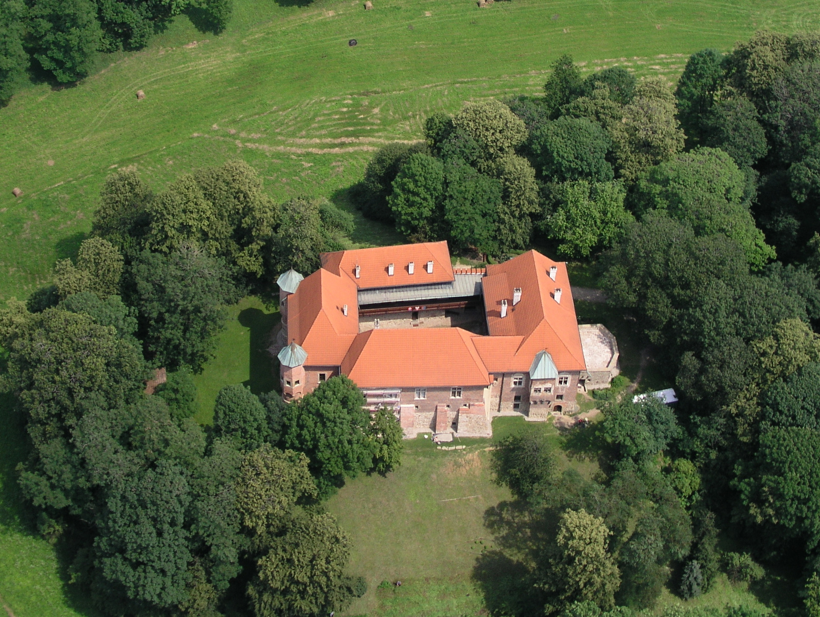 Dębno Castle